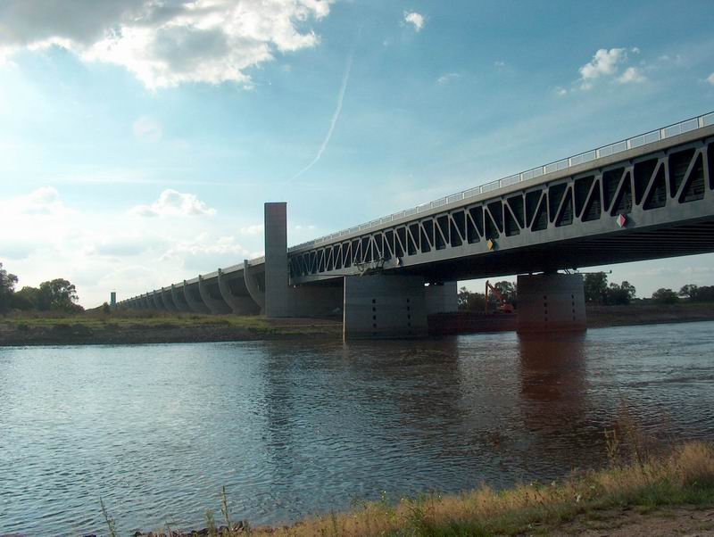 Magdeburg Water Bridge (Wasserstraßenkreuz)